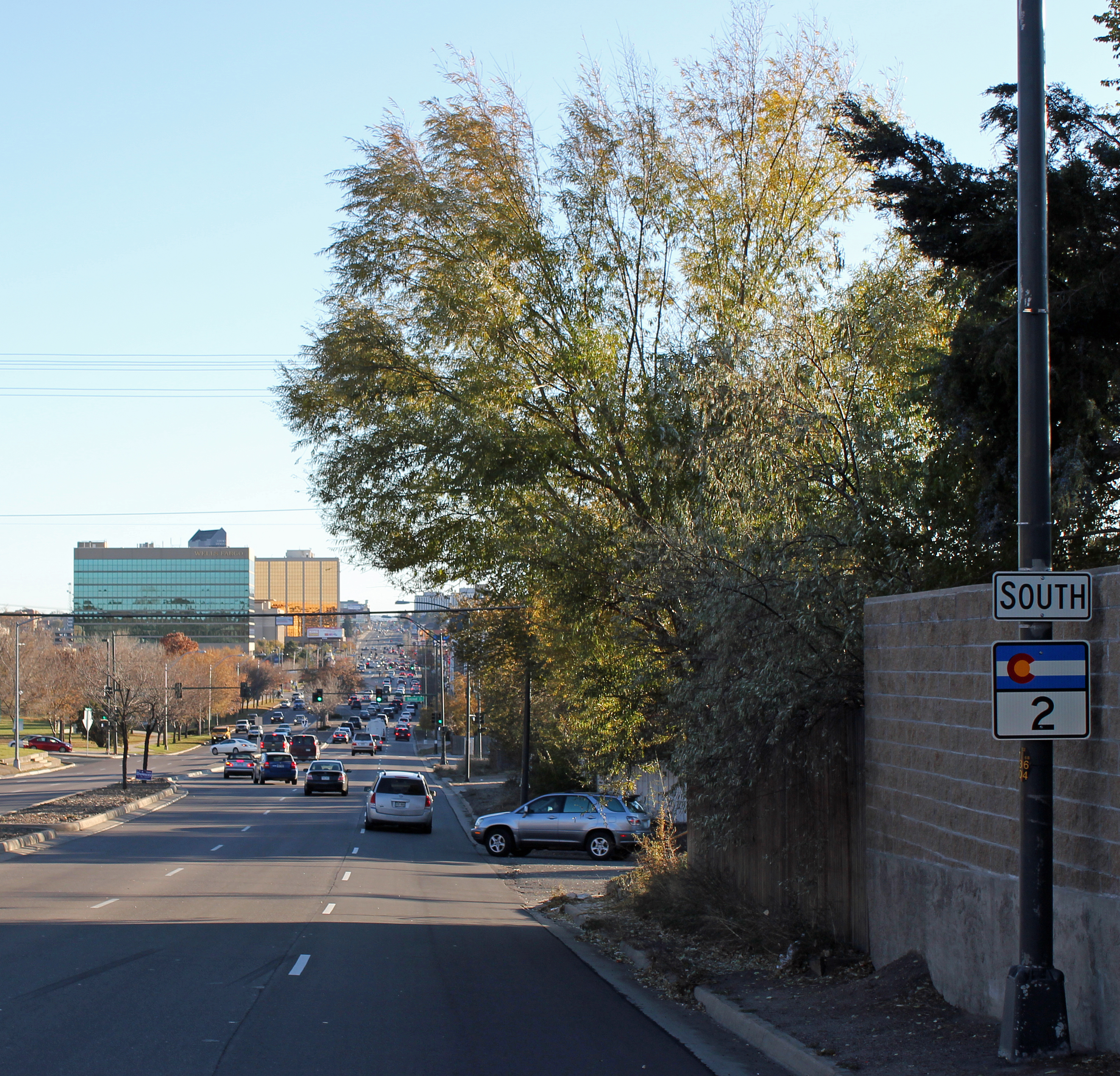 Colorado State Highway 2, also called Colorado Boulevard, in Denver, Colorado. The view is towards the south, from just north of Ellsworth.